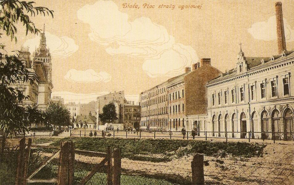 Ratuszowy Square in Bielsko-Biała in 1915.